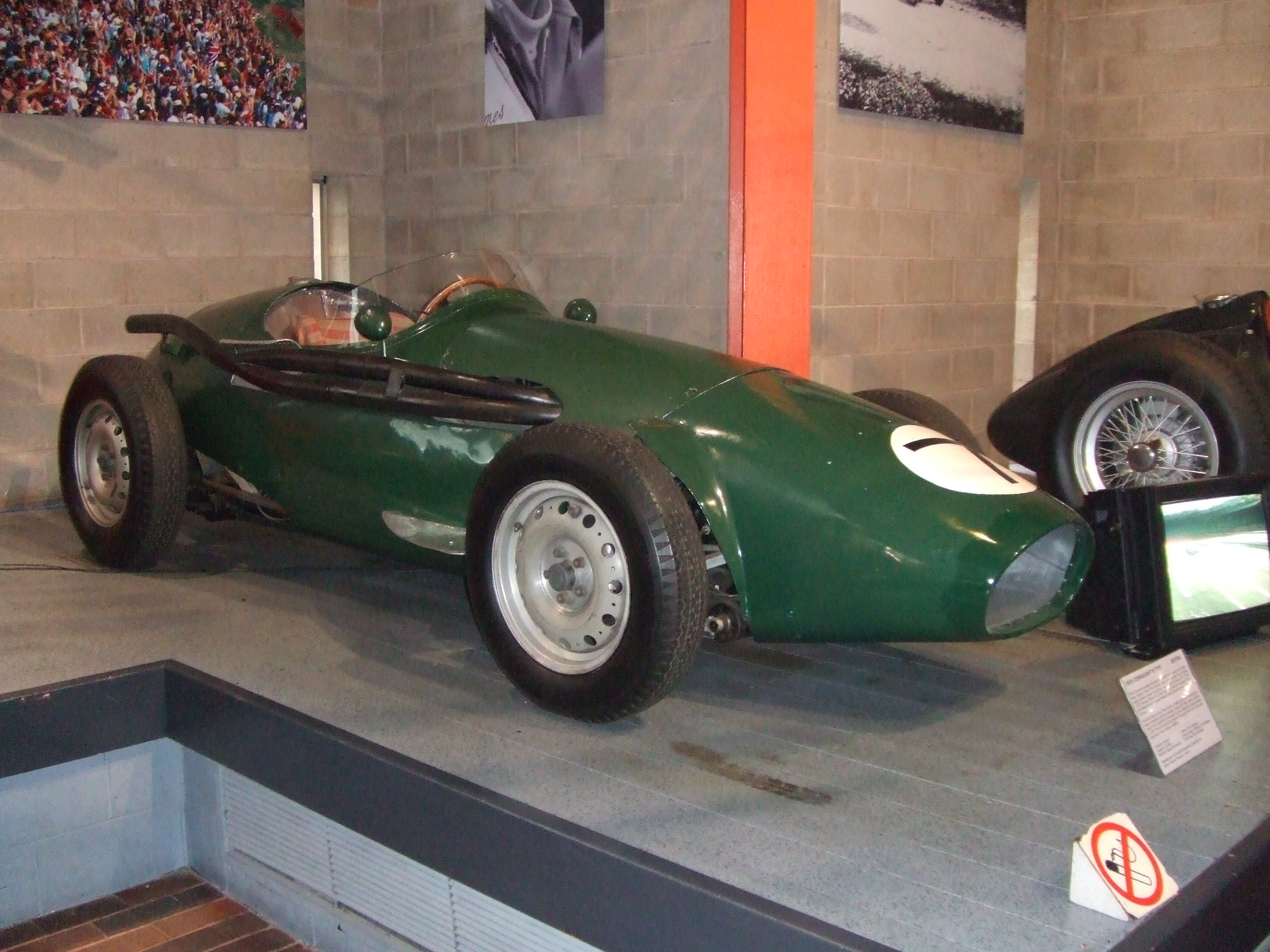 1955 Connaught F1 at the Beaulieu Motor Museum, 10/06.